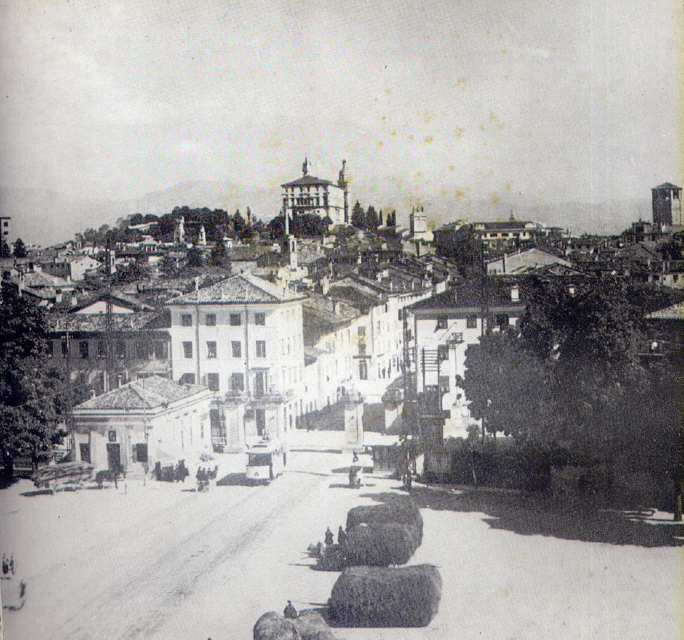 Porta Poscolle o Porta Venezia